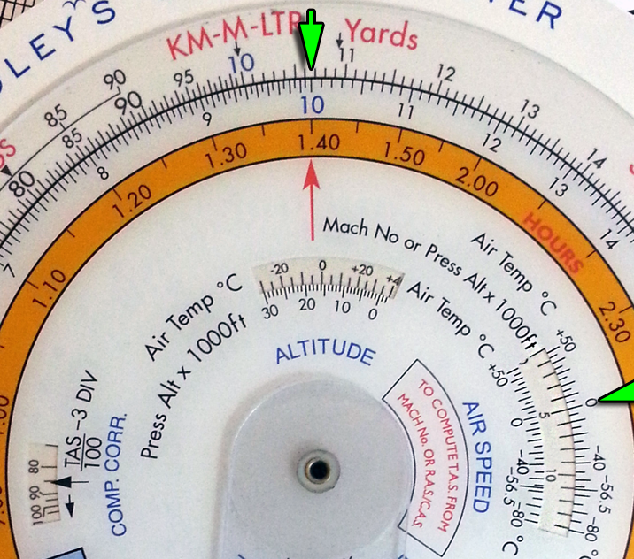 IAS or RAS/CAS to TAS airspeed conversion